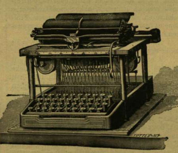 Typewriter